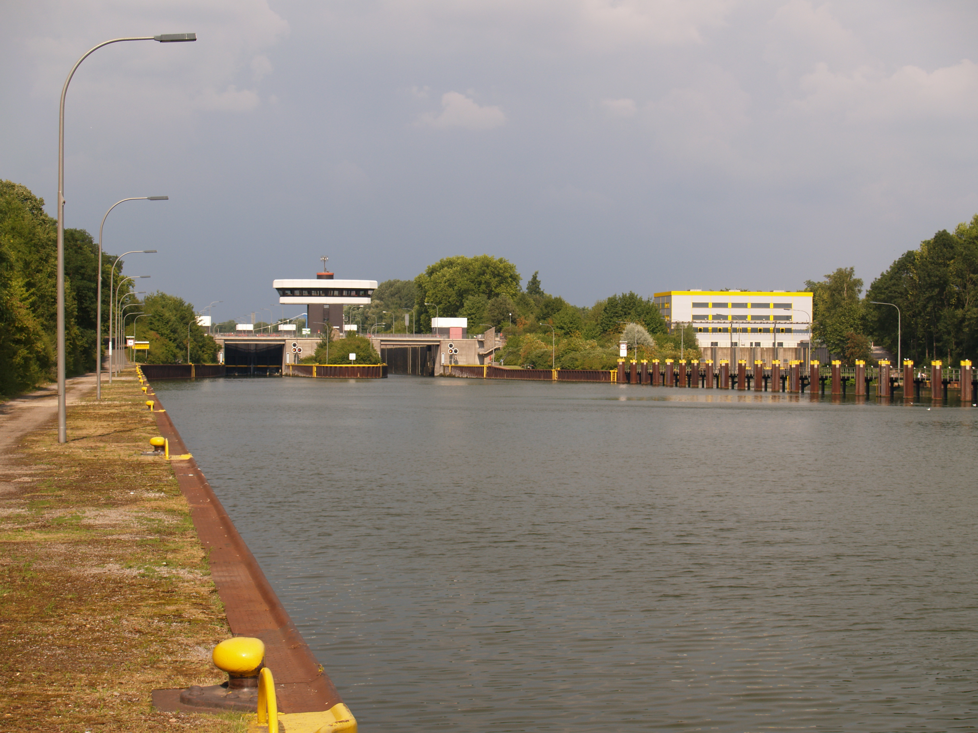 Rhein-Herne-Kanal, lock Gelsenkirchen, view from lower (west) side